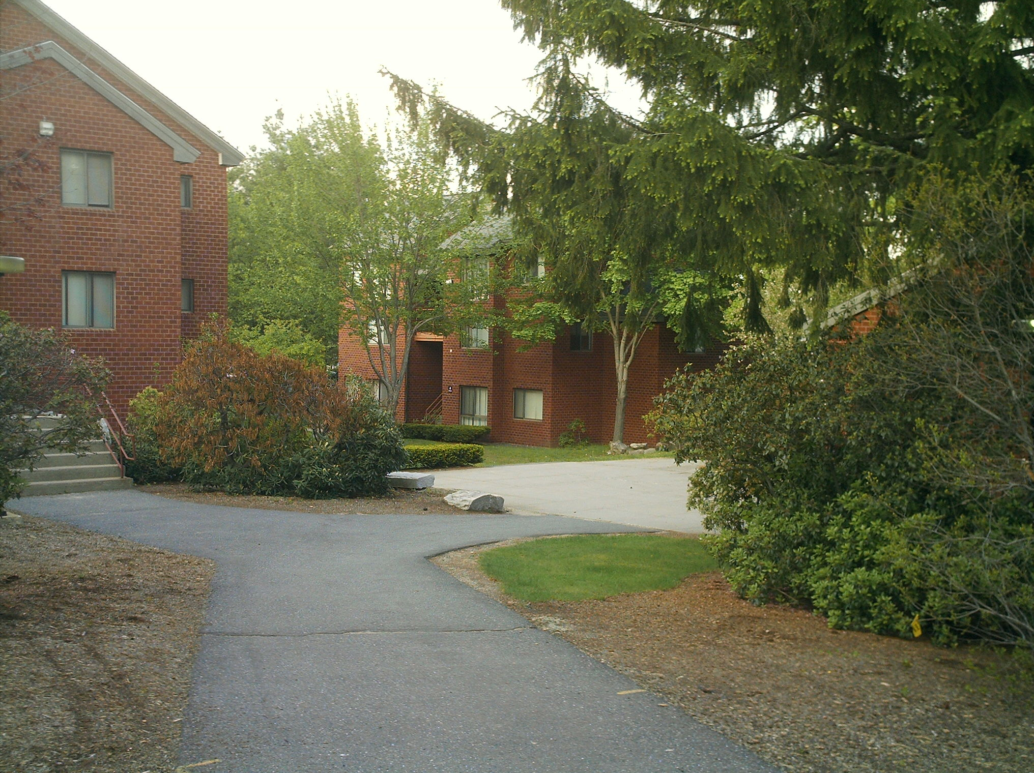 The Townhouse Apartment Buildings at Fitchburg State College